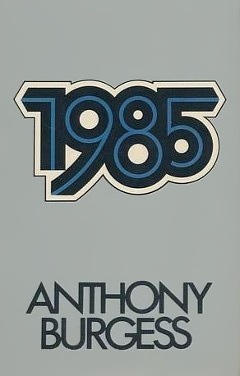 Cover of the first edition of Anthony Burgess novel 1985